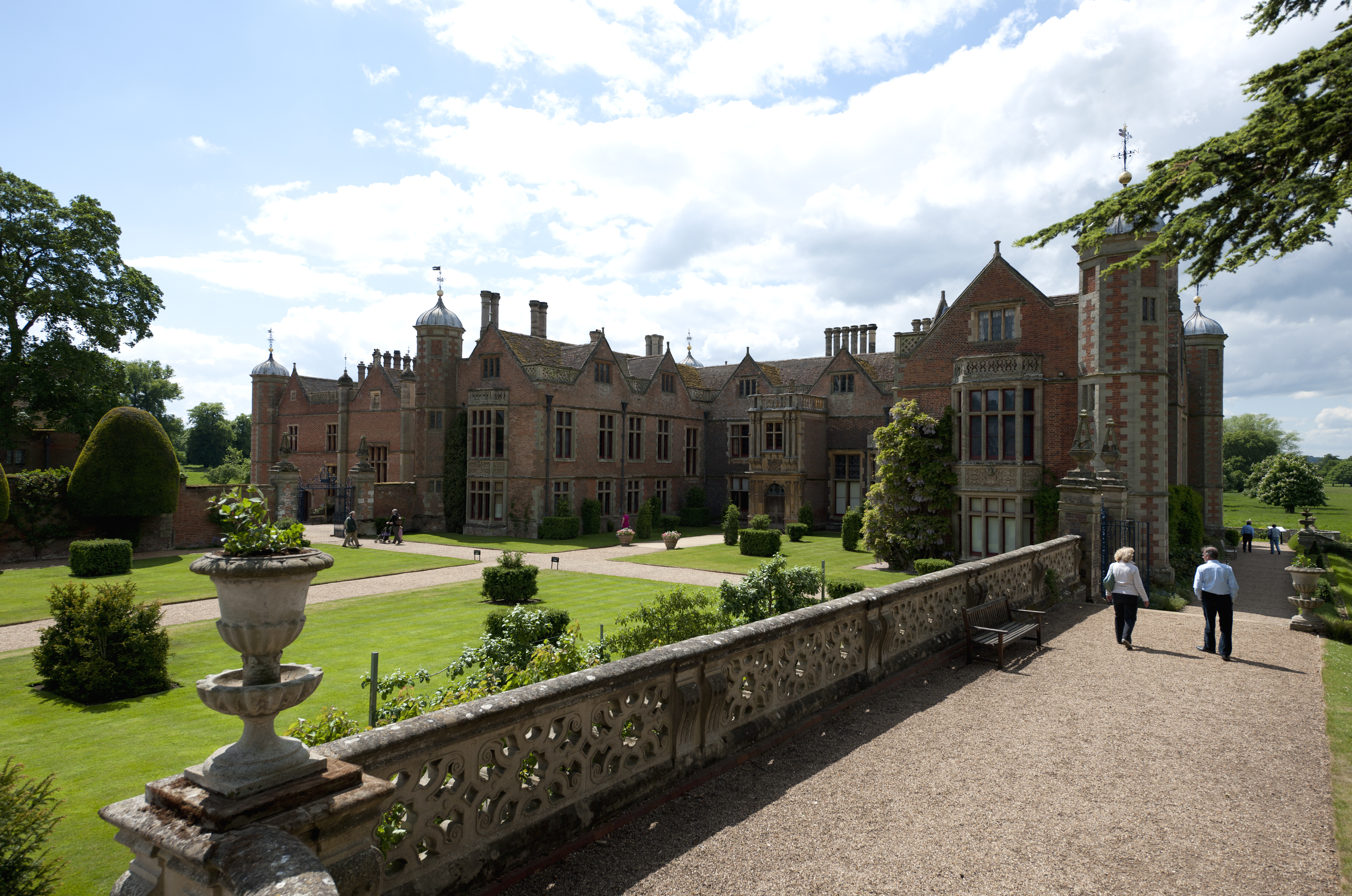 Visitors in the garden at Charlecote Park, Warwickshire.